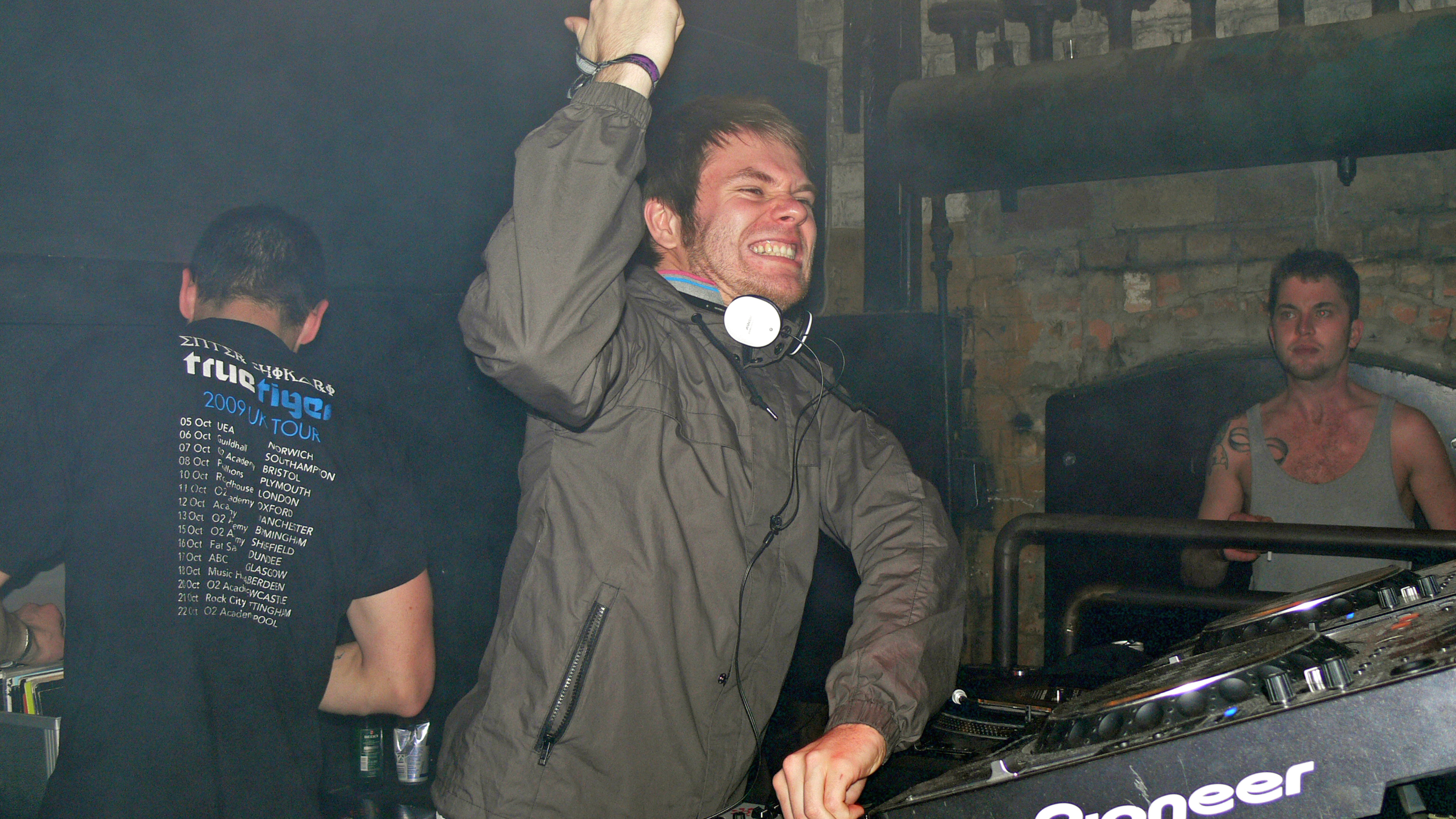 Enter Shikari singer Rou Reynolds in 2009